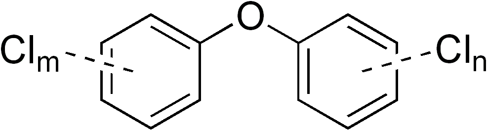 chemical structure of polychlorinated biphenyl ethers